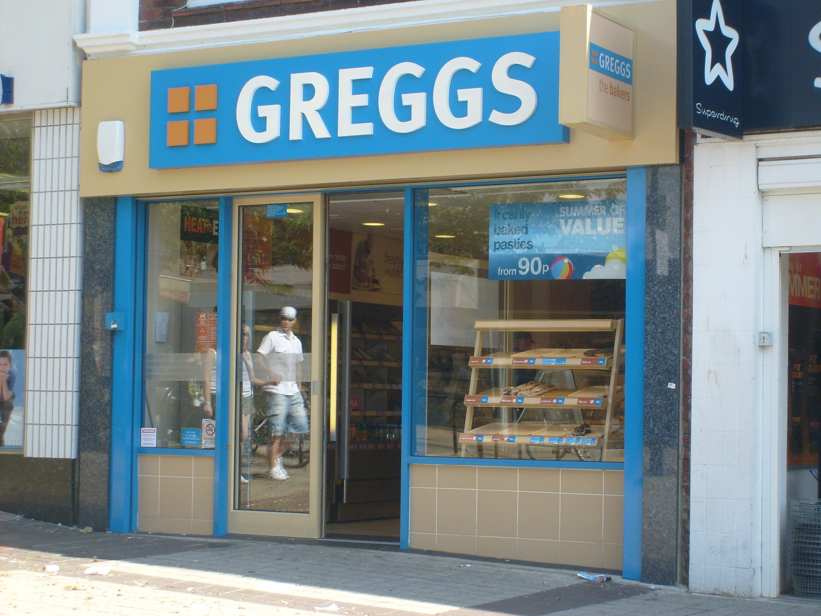 A modern Greggs the Bakery store front.